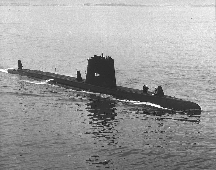 The U.S. Navy submarine USS Volador (SS-490) underway circa the mid-1960s, after her Guppy III modernization. This photograph was received by the "All Hands" magazine on 12 November 1965.